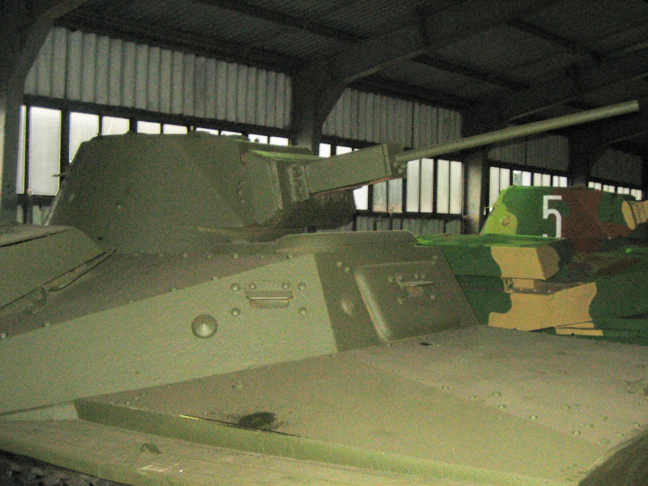 Soviet light infantry tank T-40, displayed in Kubinka Tank Museum. Photo taken on September 9, 2007. Source: Photo by me, User:Saiga20K.